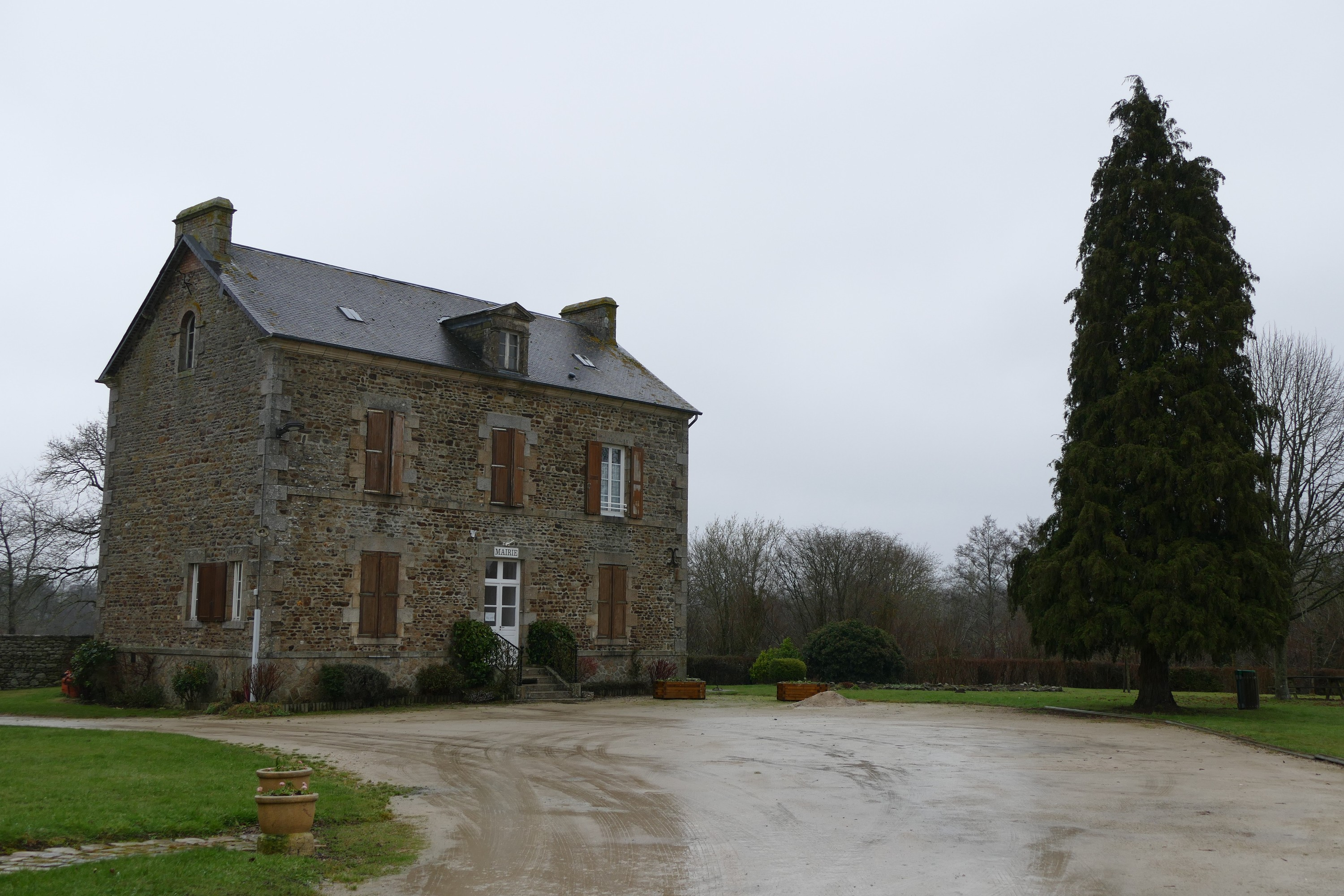 The city hall in La Roche-Mabile (Orne, Normandie, France).